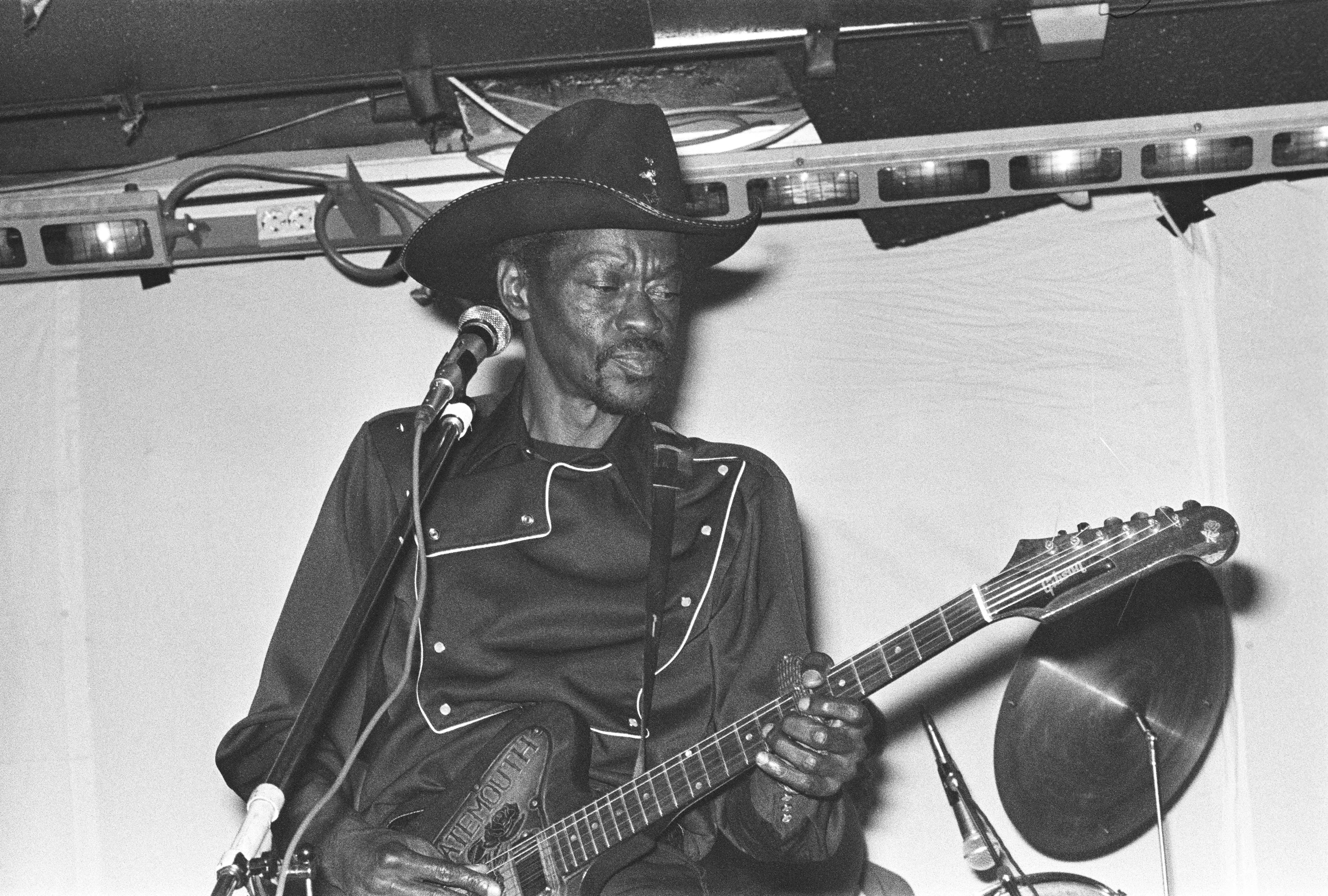 Clarence "Gatemouth" Brown & Gate's Express in Norway